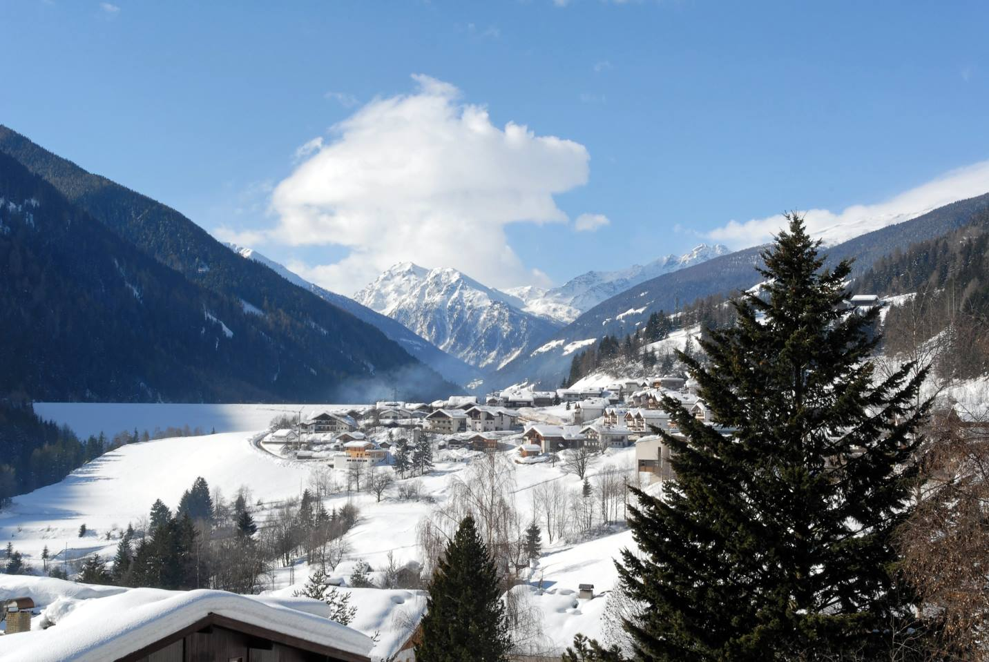 St. Walburg i Valley of Ultental: view to upper valley